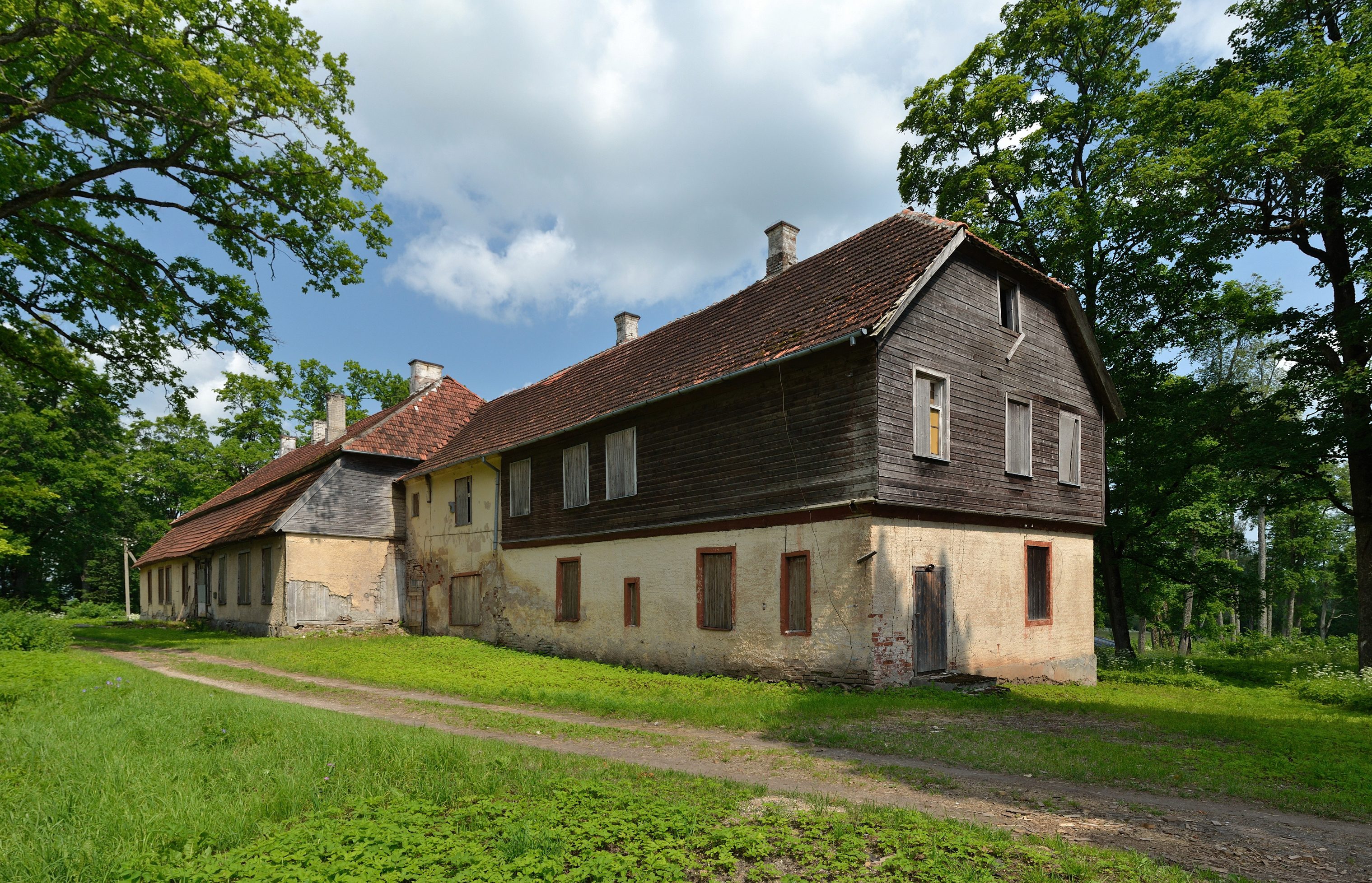 Loodi manor main building